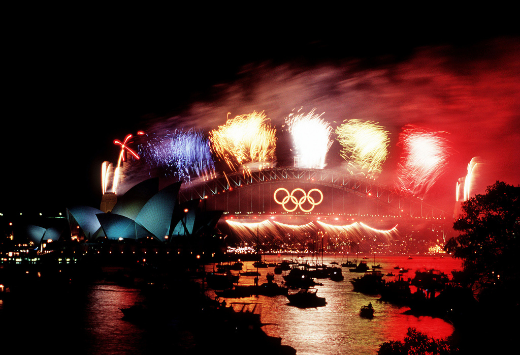 Public Domain. Suggested credit: DOD via pingnews. Additional information from source: Fireworks over the Sydney Harbour Bridge during closing ceremonies of the Olympics games in Sydney, Australia. Fifteen U.S. Department of Defense personnel participated in the Olympics, from coaches and support staff to athletes competing in various venues. DoD photo by: TSGT ROBERT A. WHITEHEAD, USAF Date Shot: 1 Oct 2000